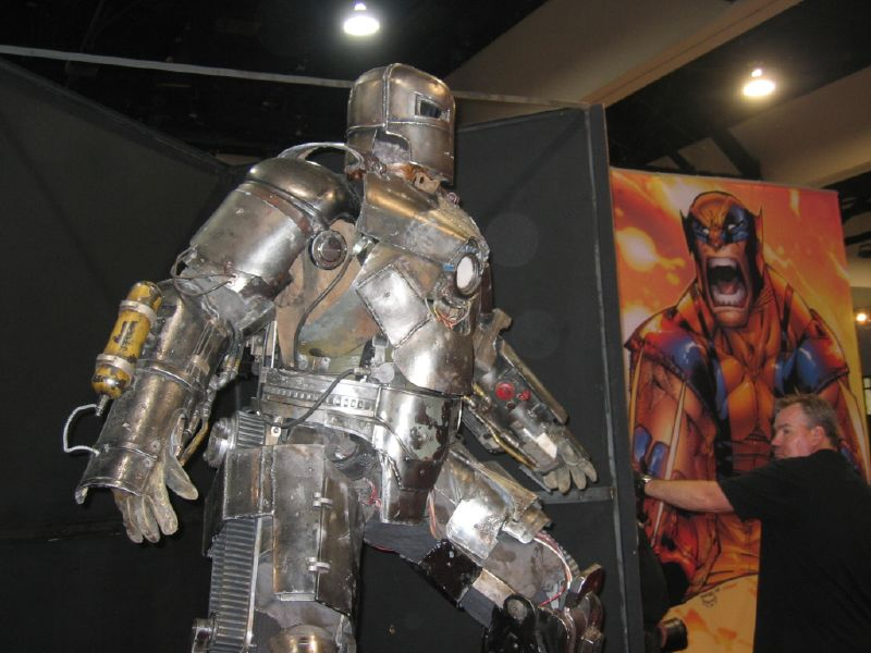 [1] b6y 1031